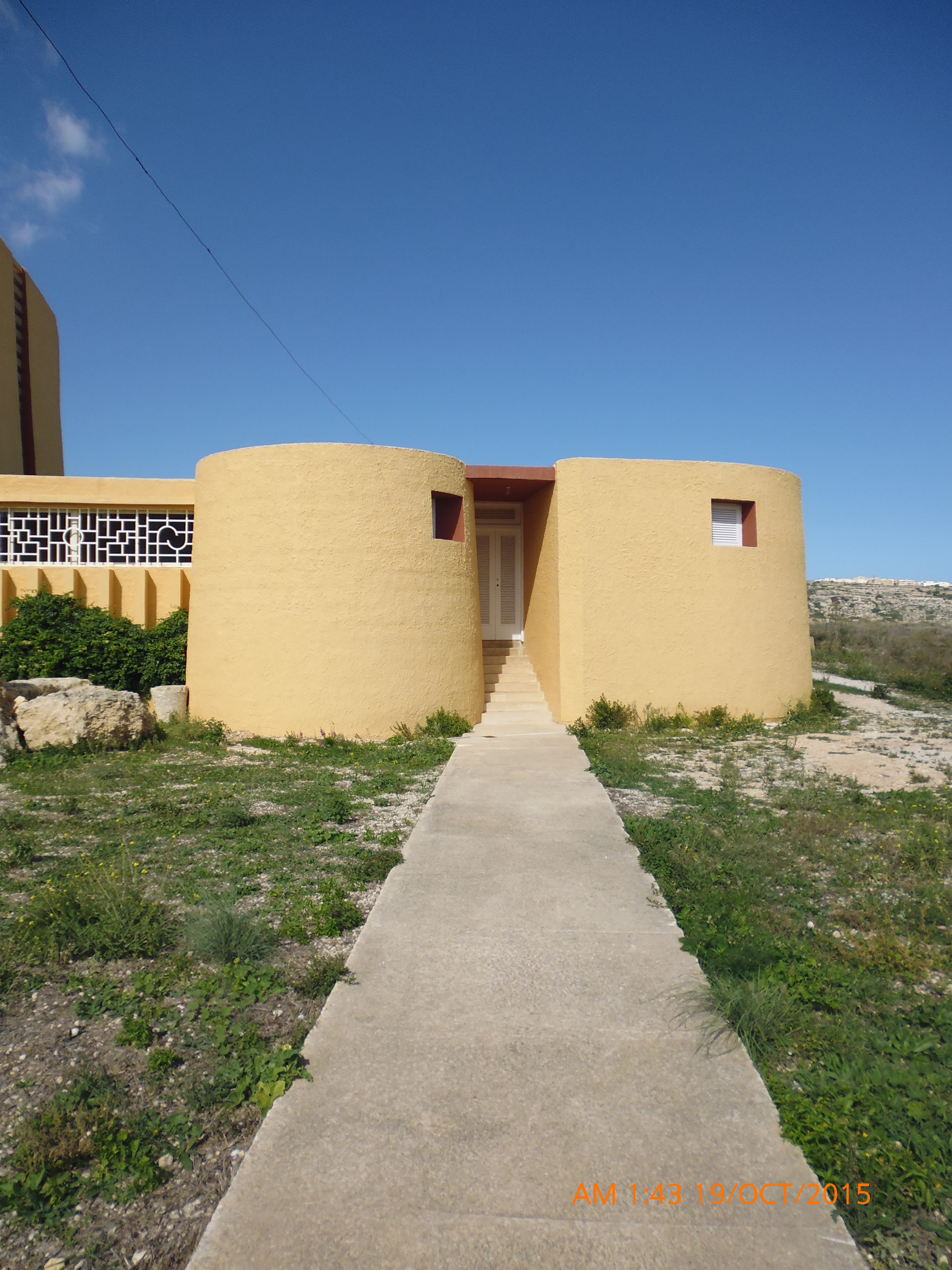 Manikata church